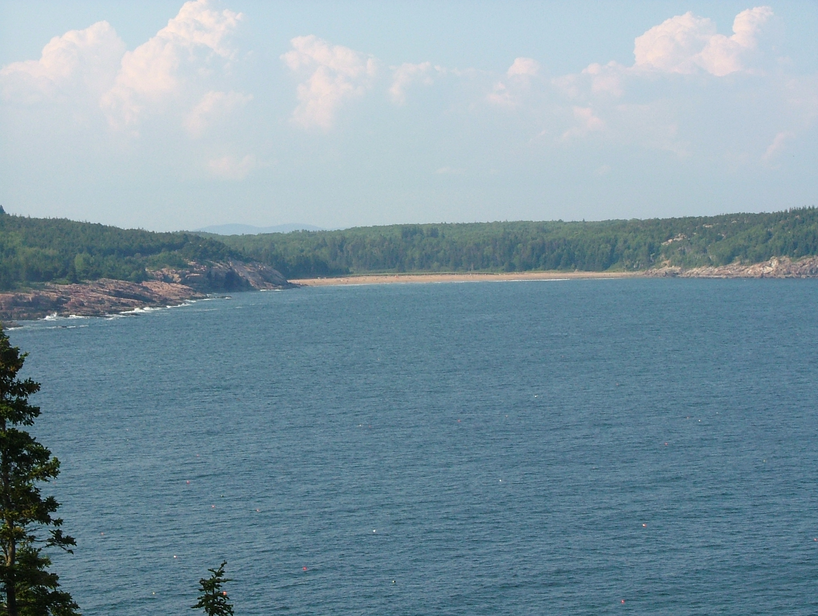 Sand Beach on Mout Desert Island, Maine